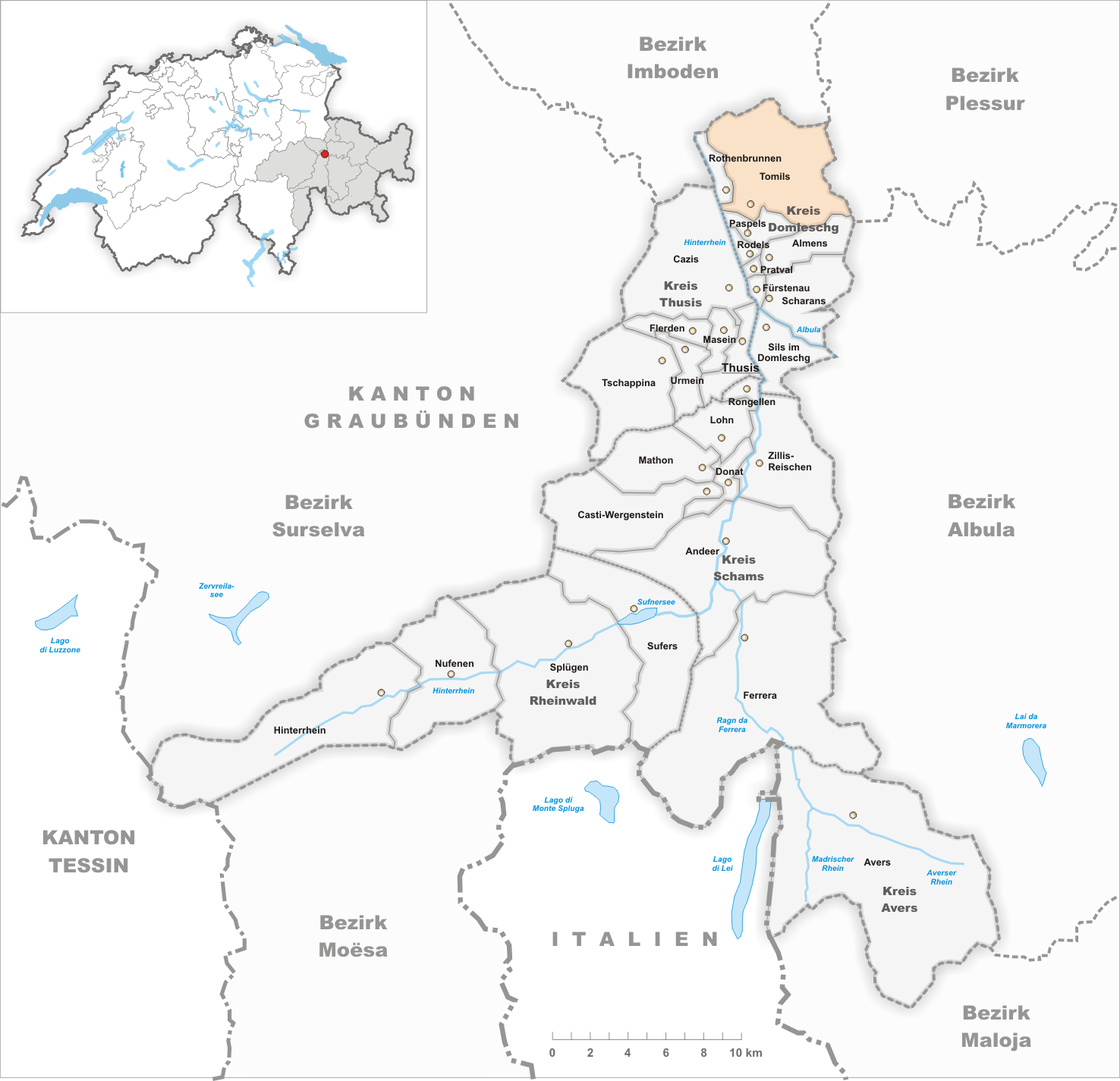 Municipality Tomils